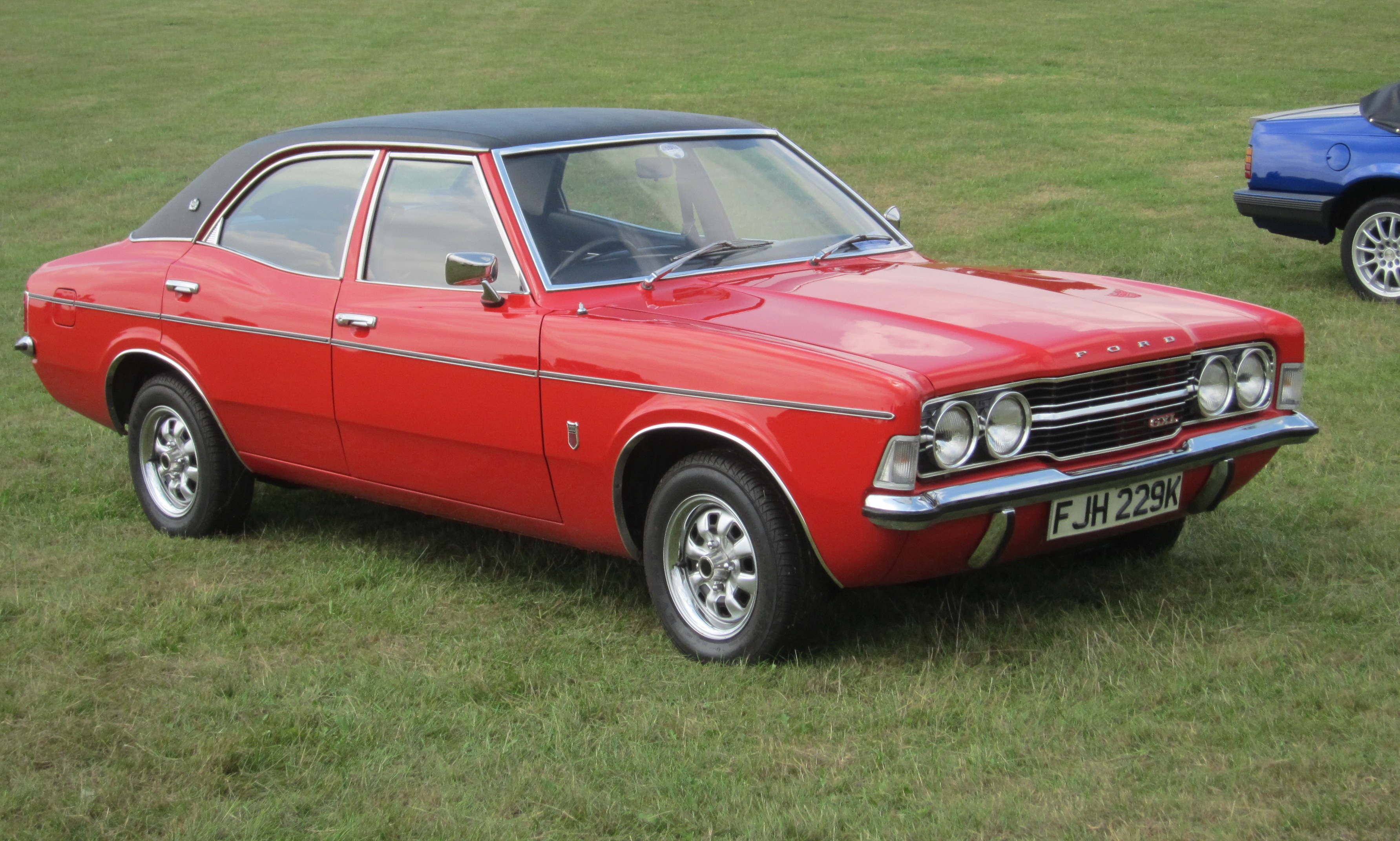 Ford Cortina MkIII GXL (1972)